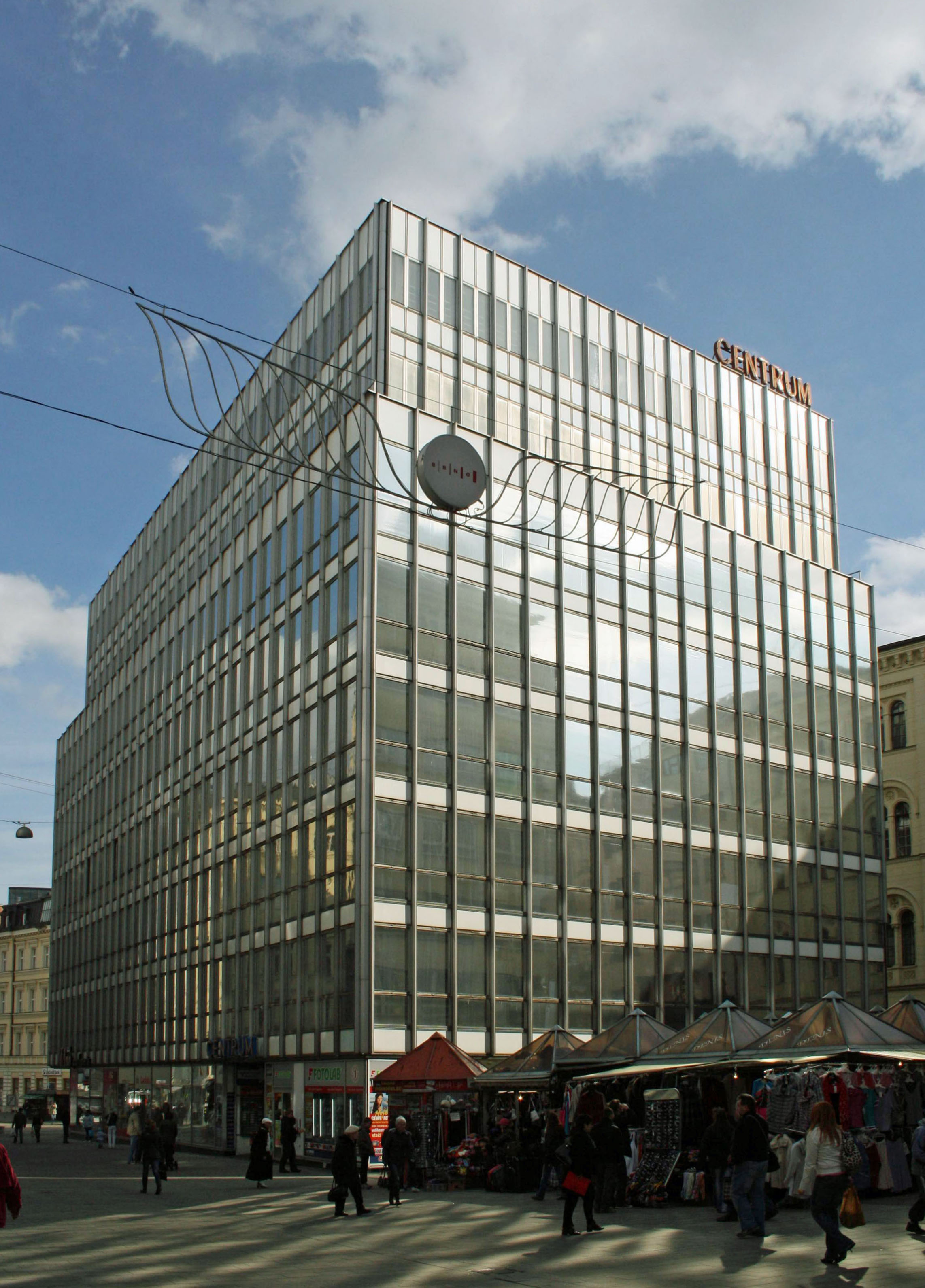 Building of OD Centrum.